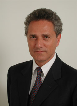 Francesco Rutelli (2001)